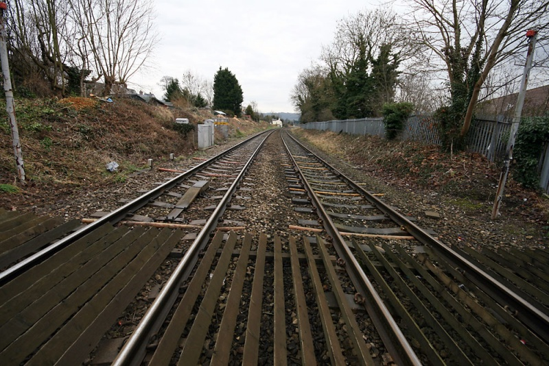 The site of Downfield Crossing Halt station taken in February 2009.